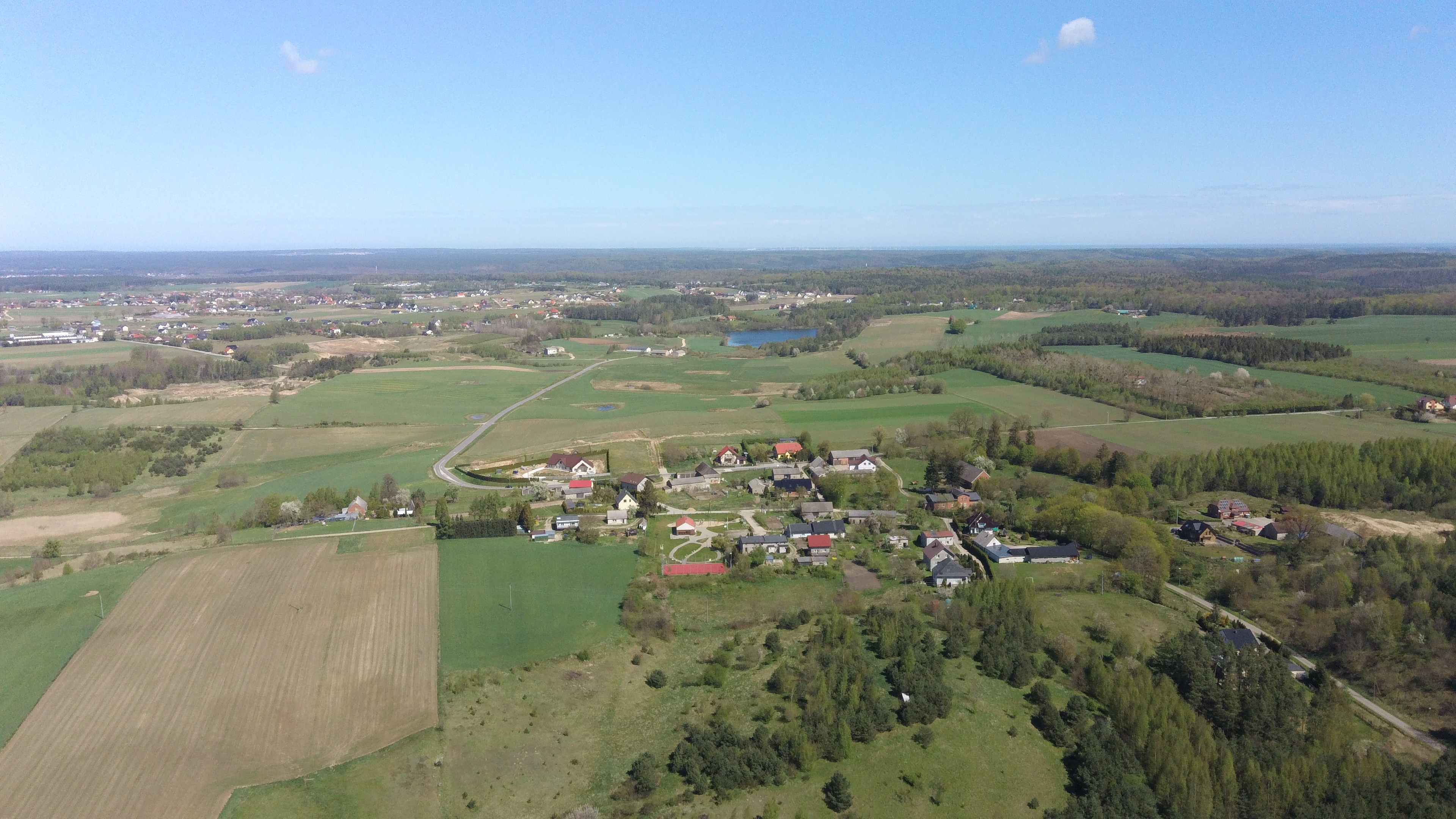 Ustarbowo (and Ustarbowo Lake in the background), Kaszëbë (Poland)